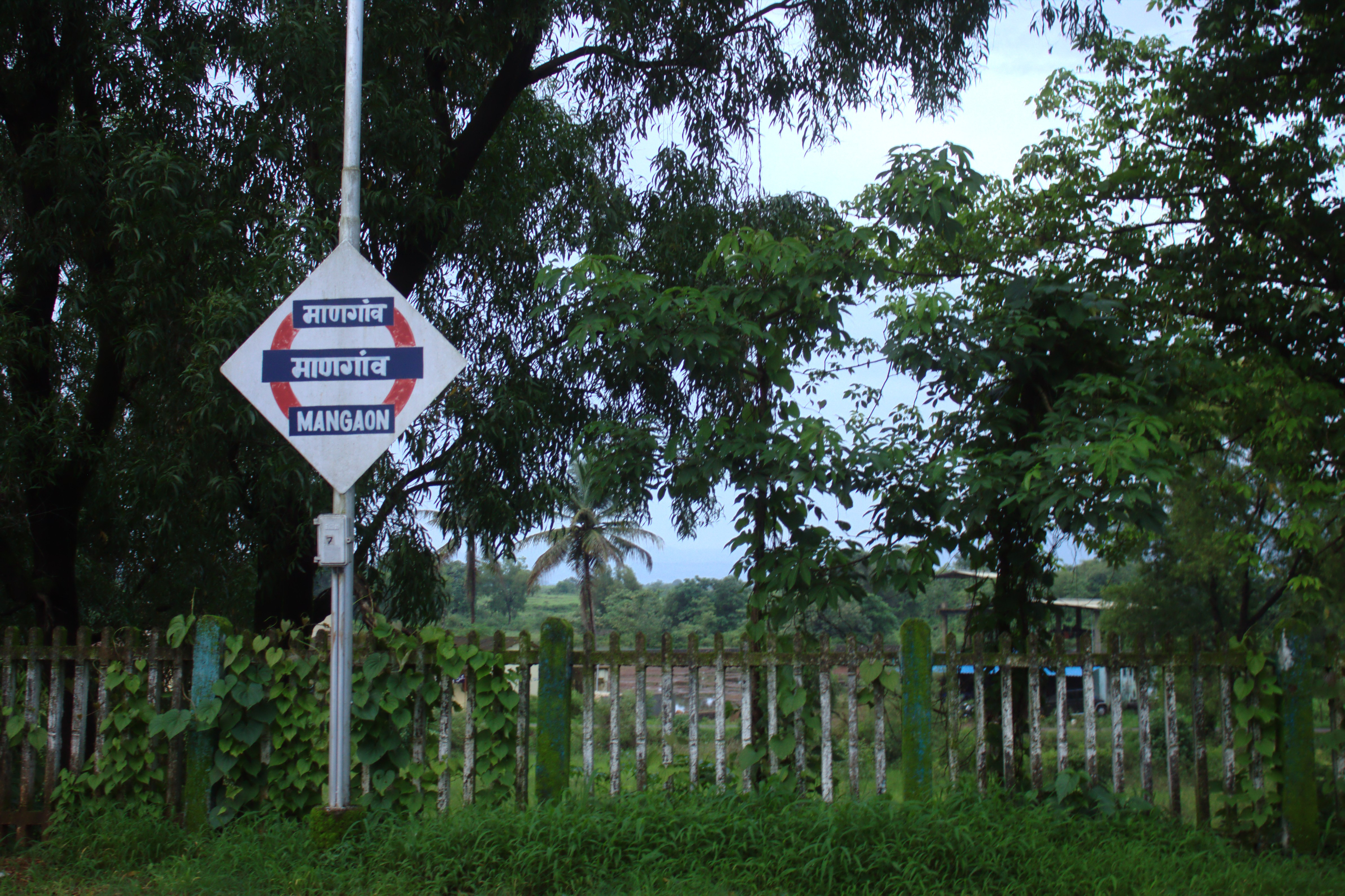 Mangaon train station, India